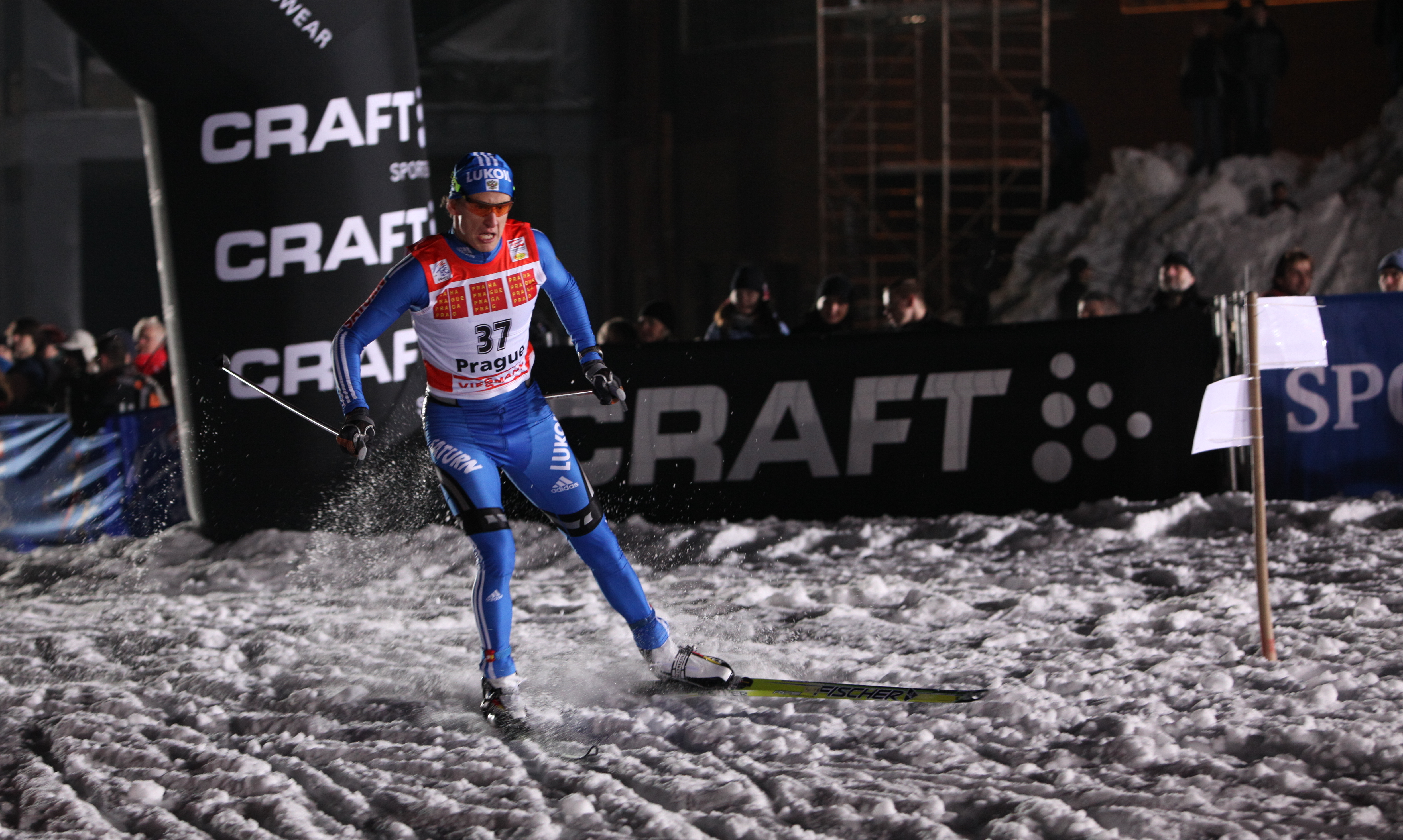 Ivan Alypov, Russian cross-coutry skier, at Ski Sprint Praha in 2010